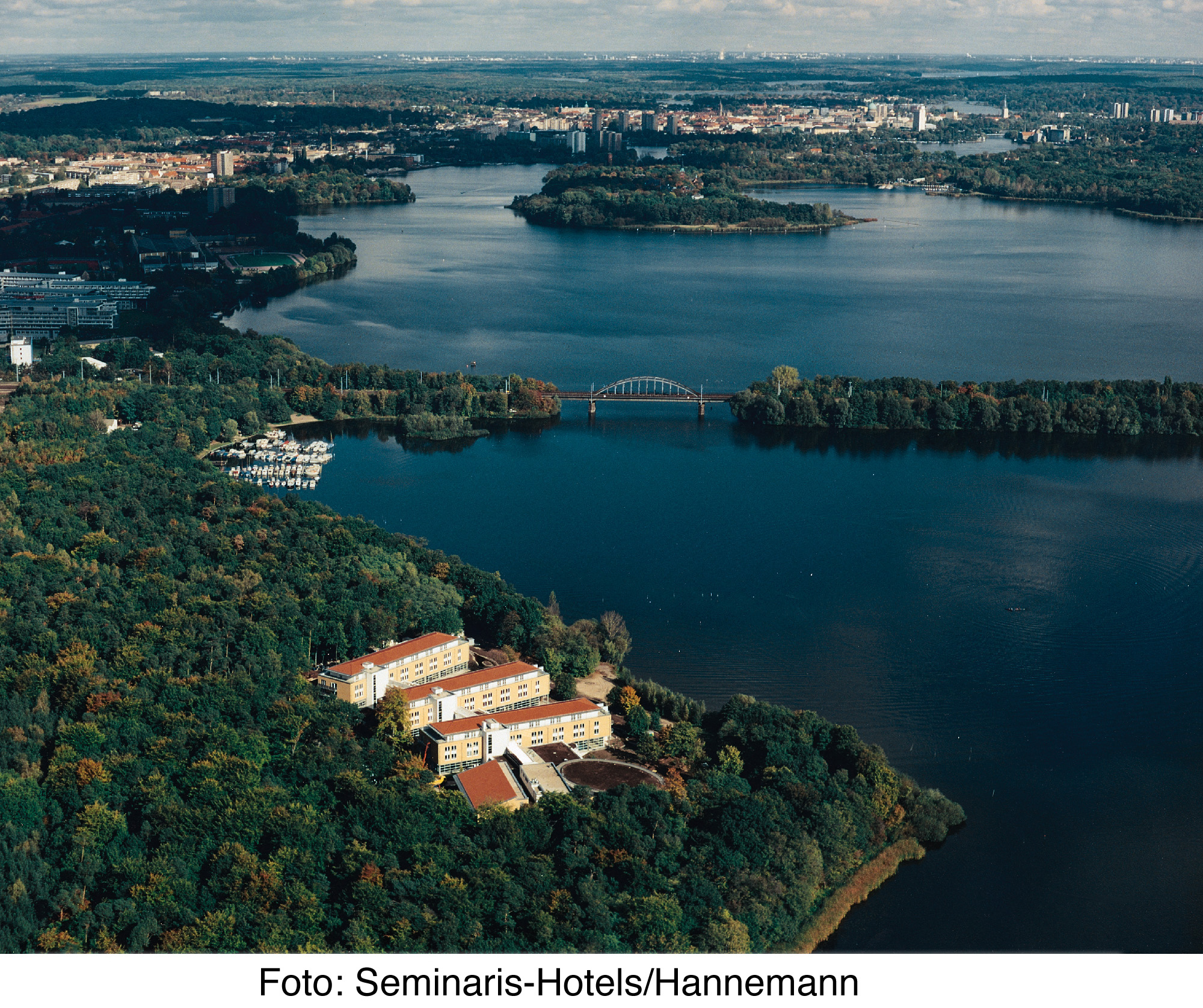 in the forest of Pirschheide directly on Lake Templin, in the background Potsdam and Berlin